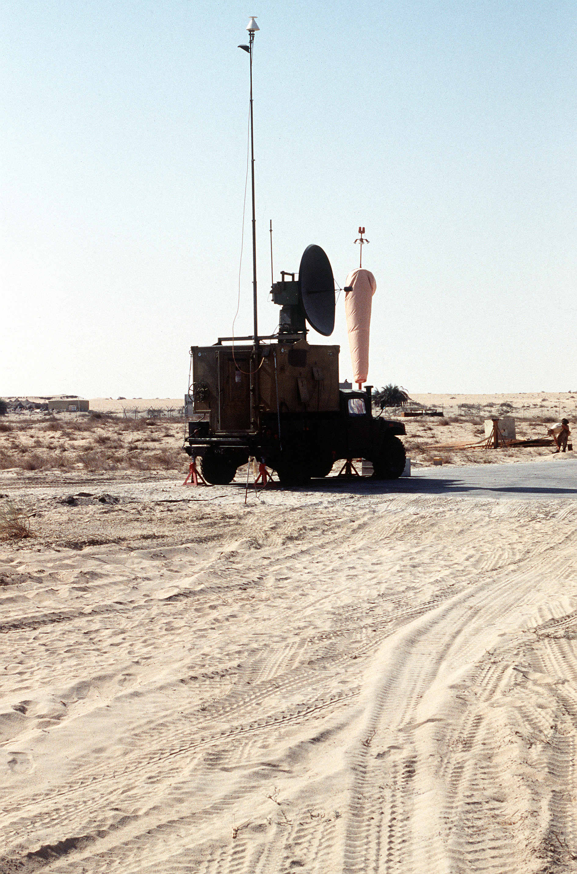 An M998 High-Mobility Multipurpose Wheeled Vehicle (HMMWV) carrying a radar and tracking system shelter sits parked at an airfield during Operation Desert Shield. The shelter is used by the Marines of the 3rd Remotely Piloted Vehicle (RPV) Platoon to track their Pioneer RPVs during flight.